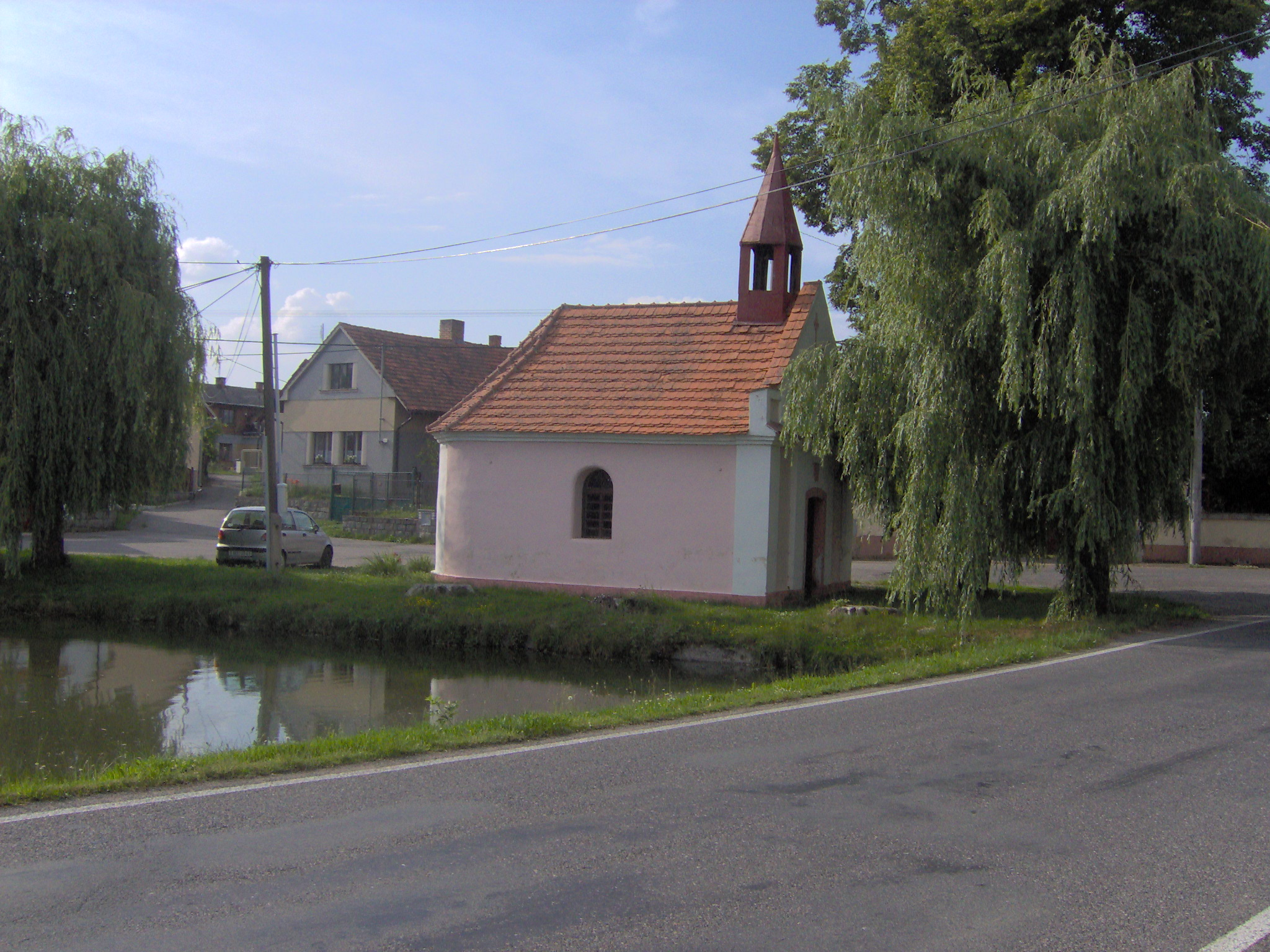 Chapel in Lnářský Málkov, part of Kadov, Strakonice District, Czech republic